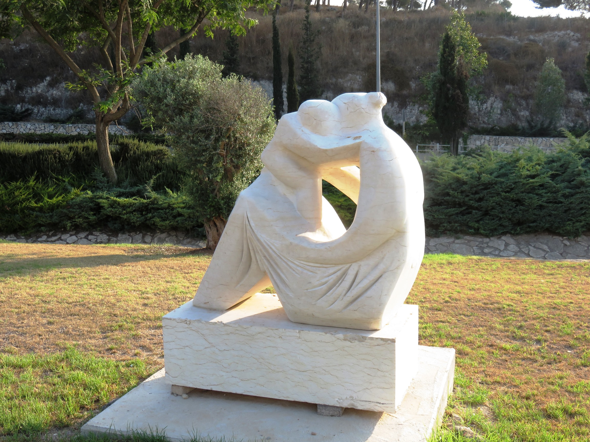 "Creation", sculpture park in Ma'alot-Tarshiha. Sculptor: Ivan Tsiskadze